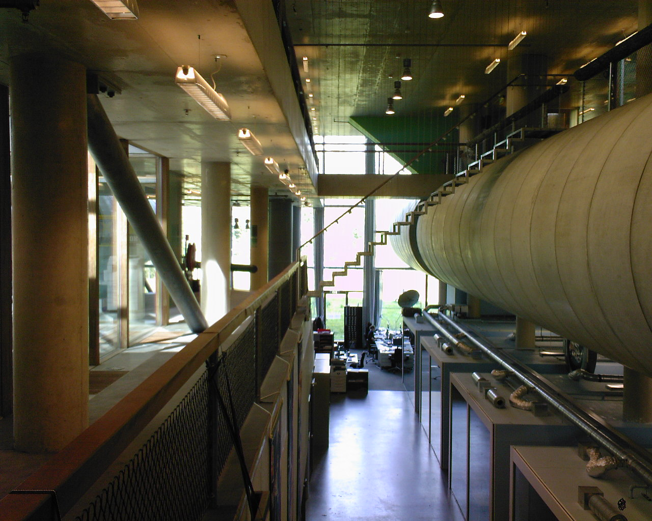 The building of Dutch Public Broadcaster VPRO is called Villa VPRO, and has a remarkable architecture.